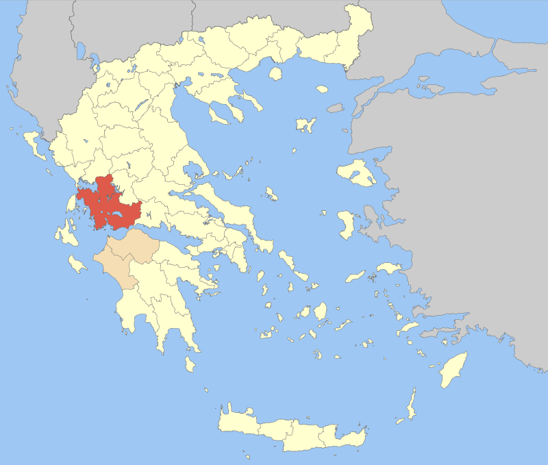 Locator map of Etoloakarnania prefecture (Νομός Αιτωλοακαρνανίας) in Greece